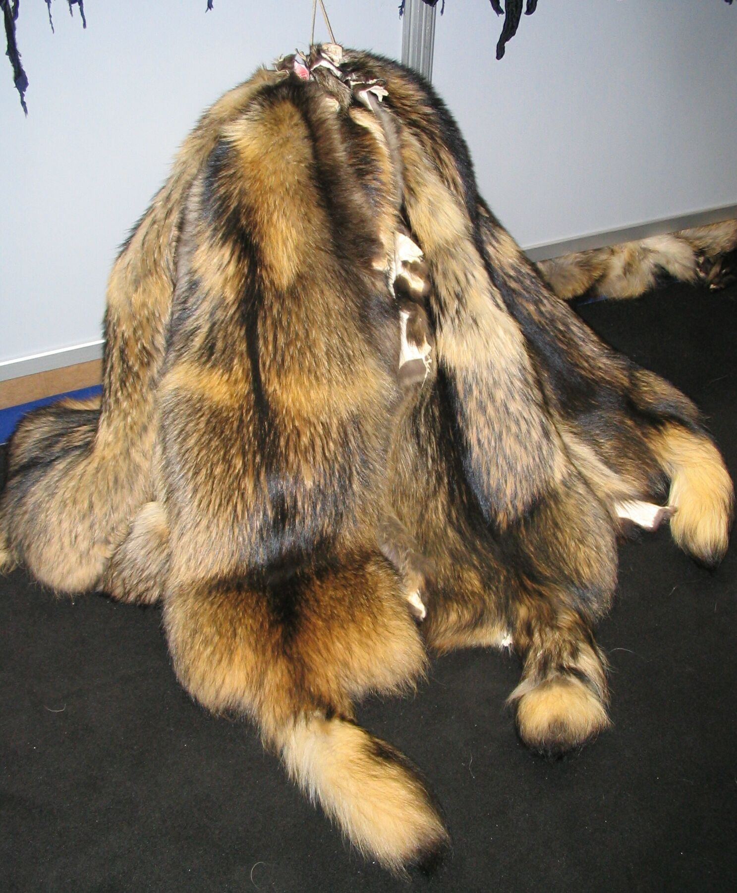 ‚Finnraccoon‘ fur-skins (raccoon-dog))